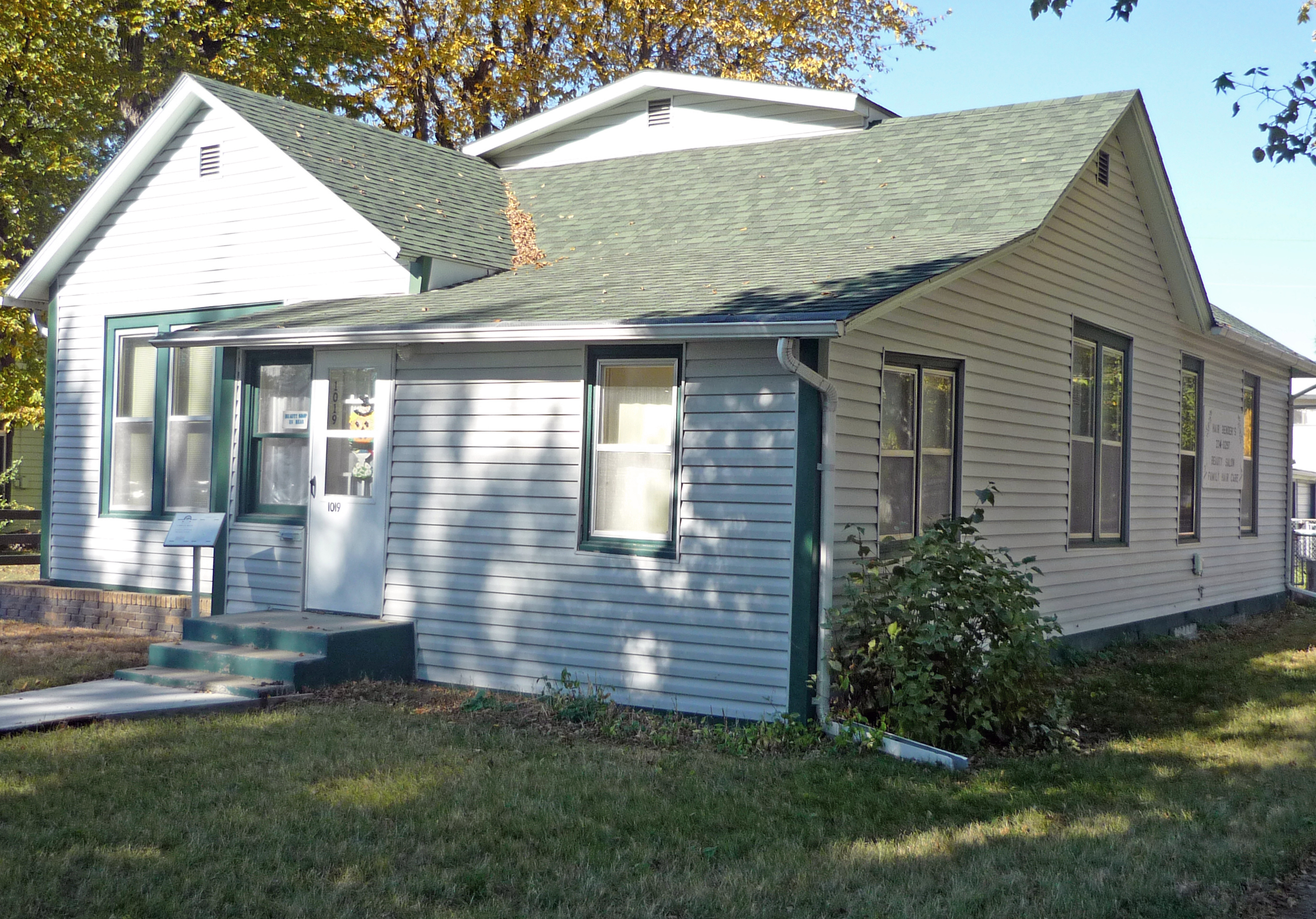 Carriage House Historic District contributing property